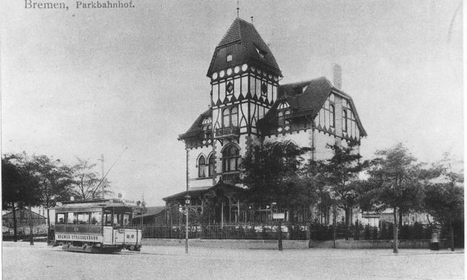 Bremen Parkbahnhof station at the "Jan Reiners" railroad